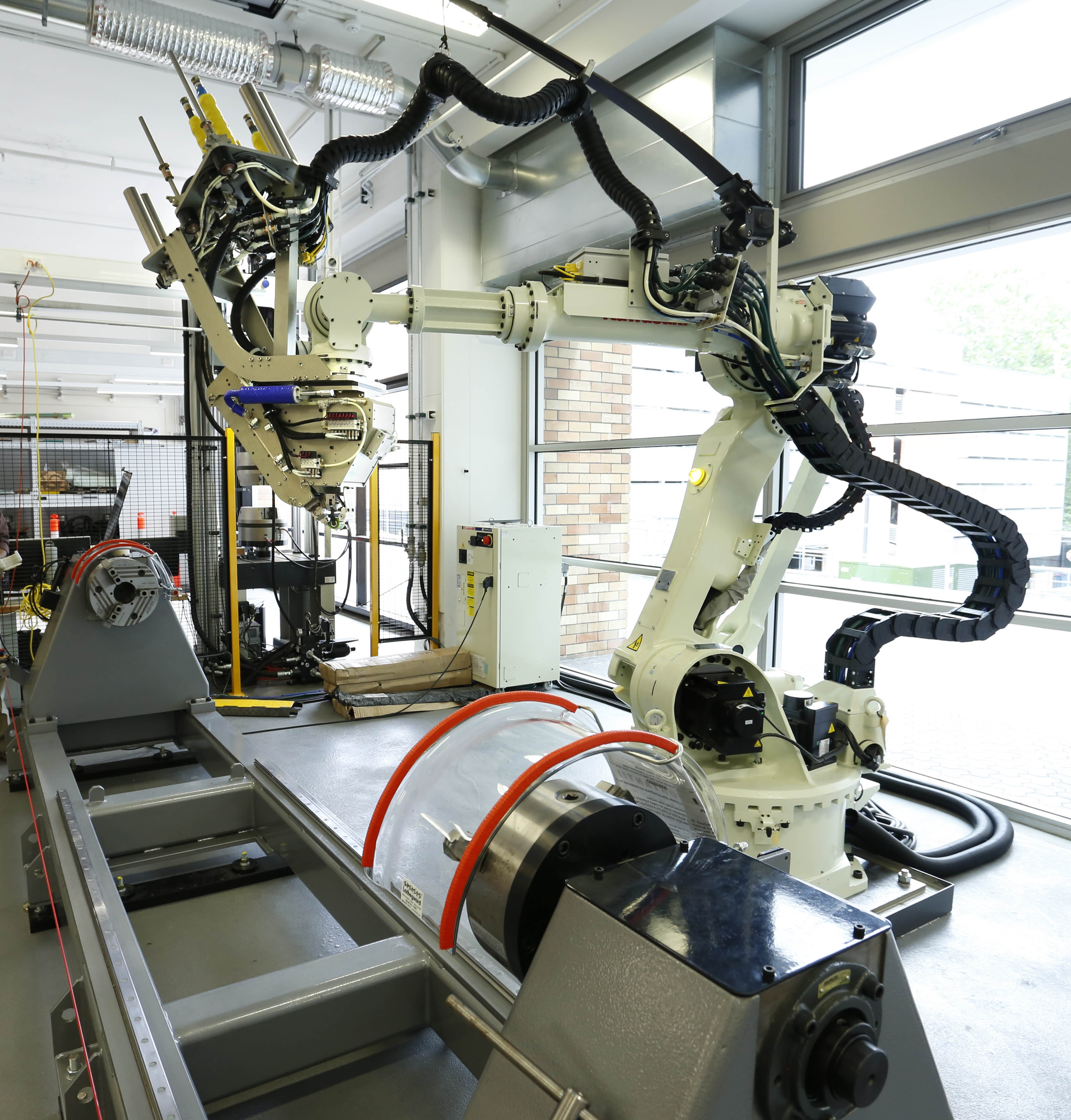 test